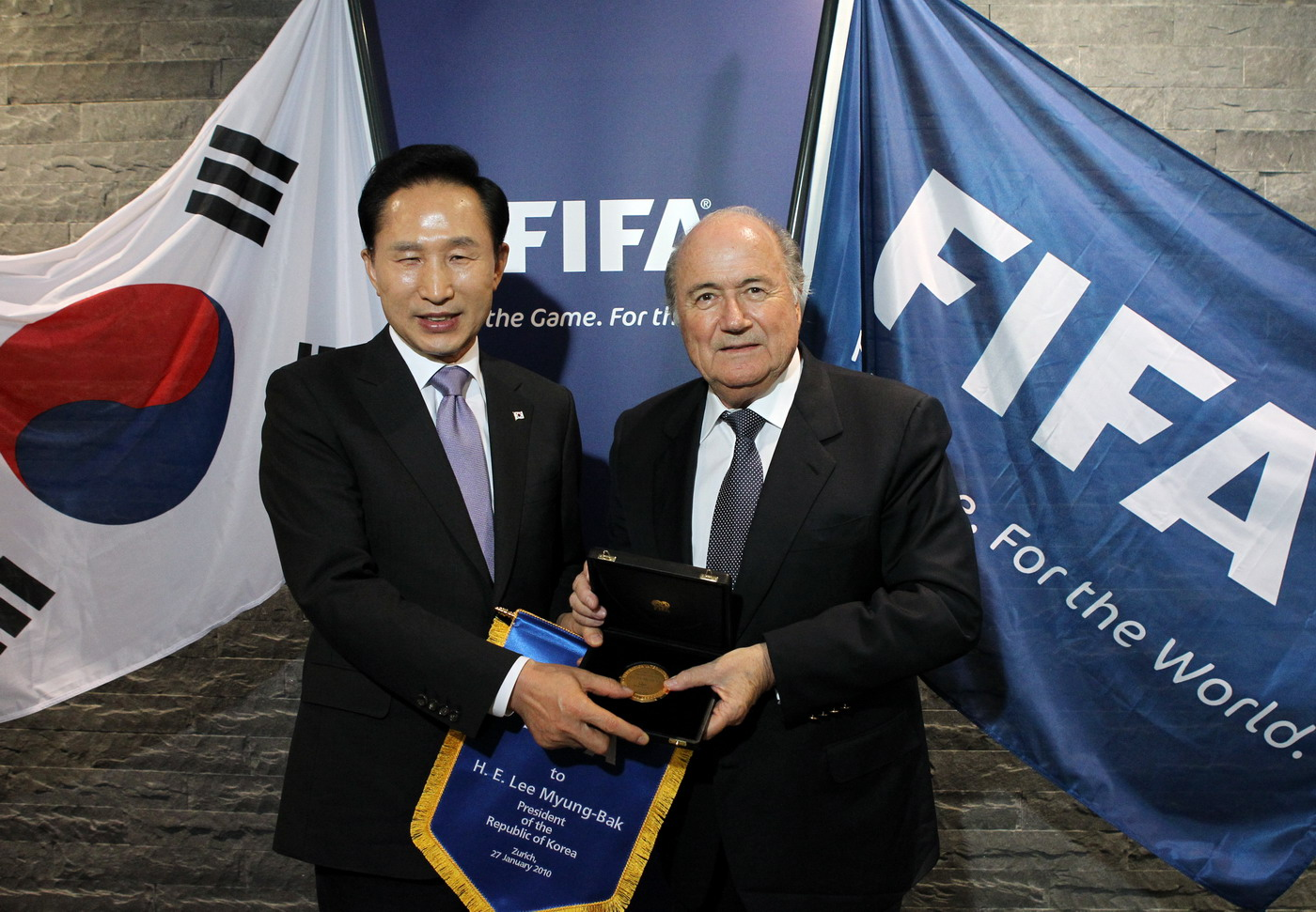 President Lee Myung-bak on Jan. 27 met with FIFA President Sepp Blatter at the latter's office in Zurich, and explained to him how well prepared Korea is to host the 2022 FIFA World Cup.